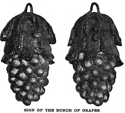 Sign of the Bunch-of-Grapes tavern, State St. and Kilby St., Boston, 17th-18th c.